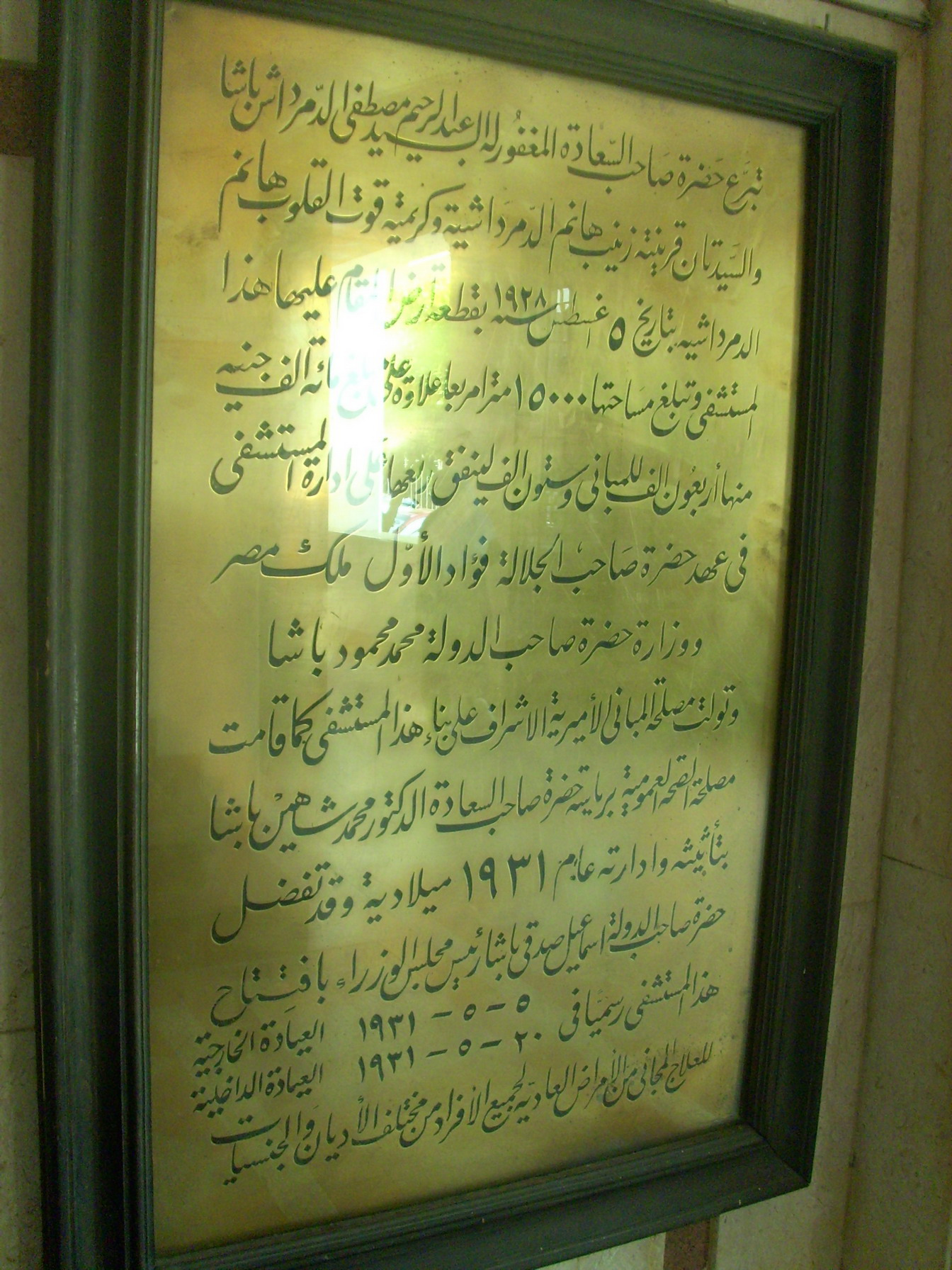 The Memorial metalic plate erected in the Original El-Demerdash hospital, mentioning the establishment date of the hospital 1929 and the Official opening on 1931, and that it aimed of treatment of all people from all religions and all nationalities.